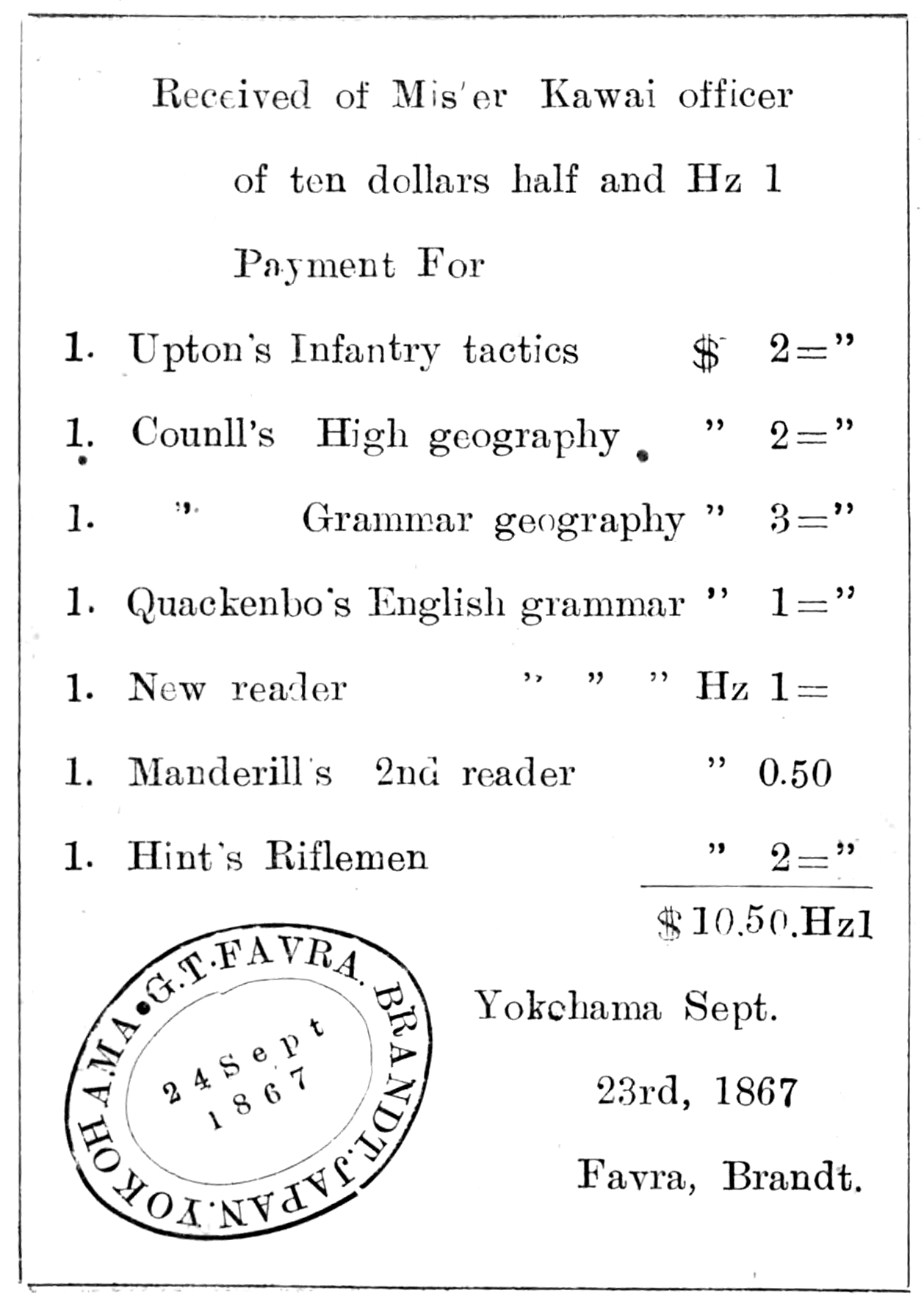 Receipt of books price that Kawai Tsuginosuke has purchased from Favra Brandt. (Gray-scaled)